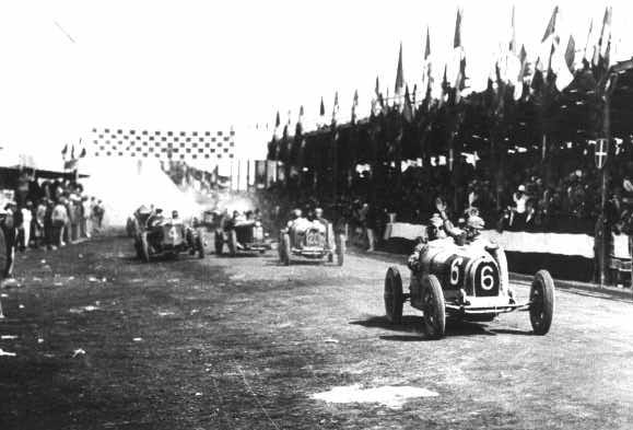 Racers at the Coppa Acerbo on August 6, 1927. Entry #6 (in front) is Gaspare Bona (Bugatti T35B), #20 is Umberto Pugno (also Bugatti T35B), #16 is Giuseppe Campari (WINNER, Alfa Romeo P2) and #4 is Bruno Presenti (Alfa Romeo RL TF). These 4 were among the 8 in the "large cars" class that started at 09:00, and this picture would be from the first lap since Presenti had to retire at Villa di Michele (ref: Hans Etzrodt, 1927 Coppa Acerbo)